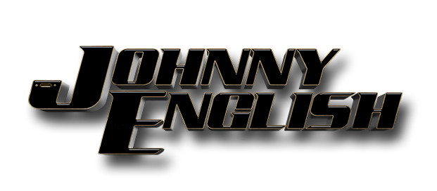 Johnny English Strikes Again movie logo